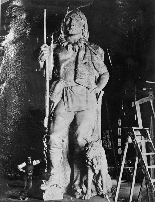 Indian Figure, Philadelphia City Hall Tower, prior to installation, circa 1892, Alexander Milne Calder, sculptor.